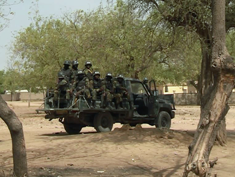 The Cameroonian Rapid Intervention Battalion in Maroua, Jan. 17 2019, amid counter-insurgency operations against Boko Haram and the Islamic State.